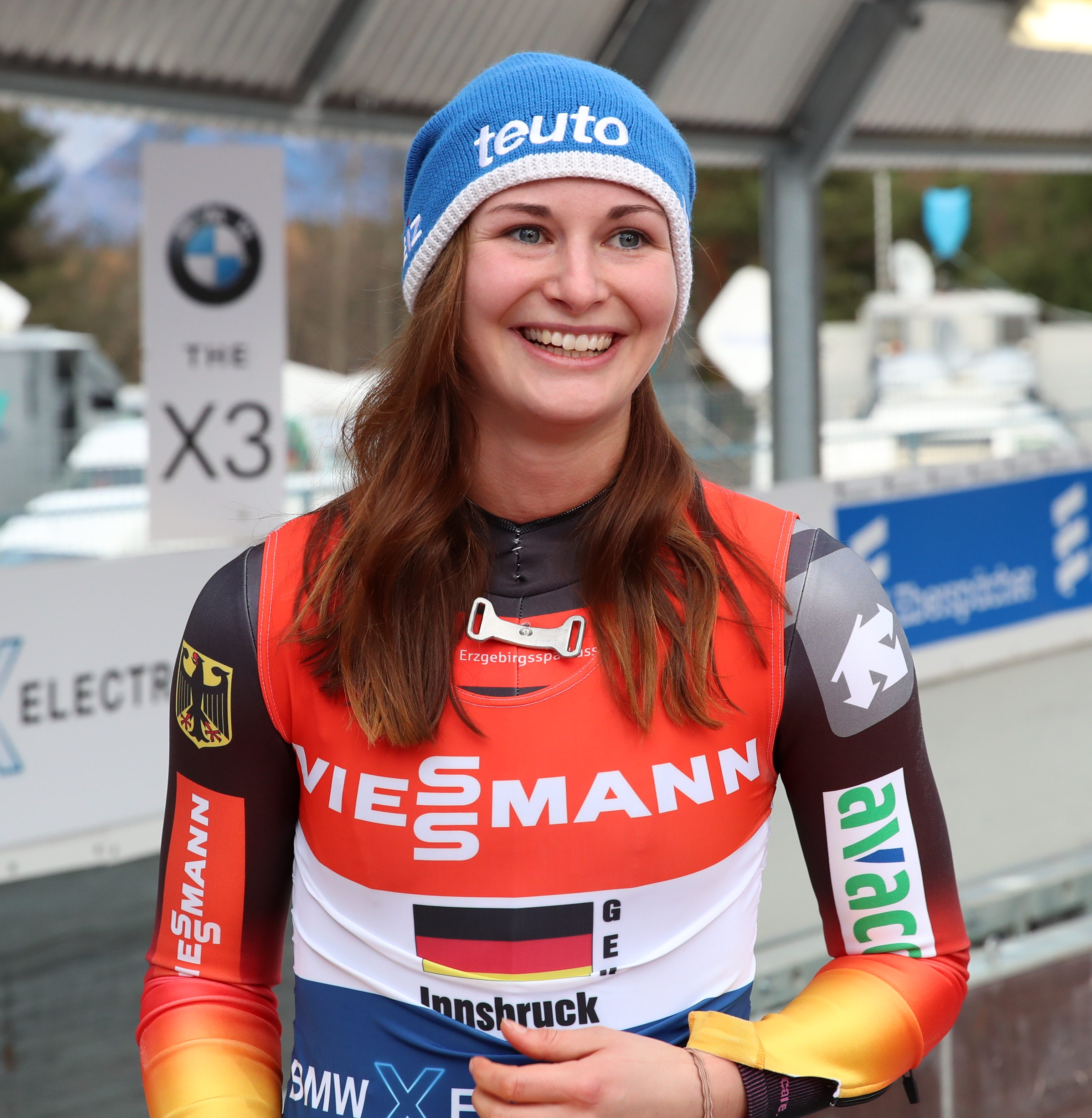 Team Relay World Cup race at the 2019/20 Luge World Cup in Innsbruck-Igls